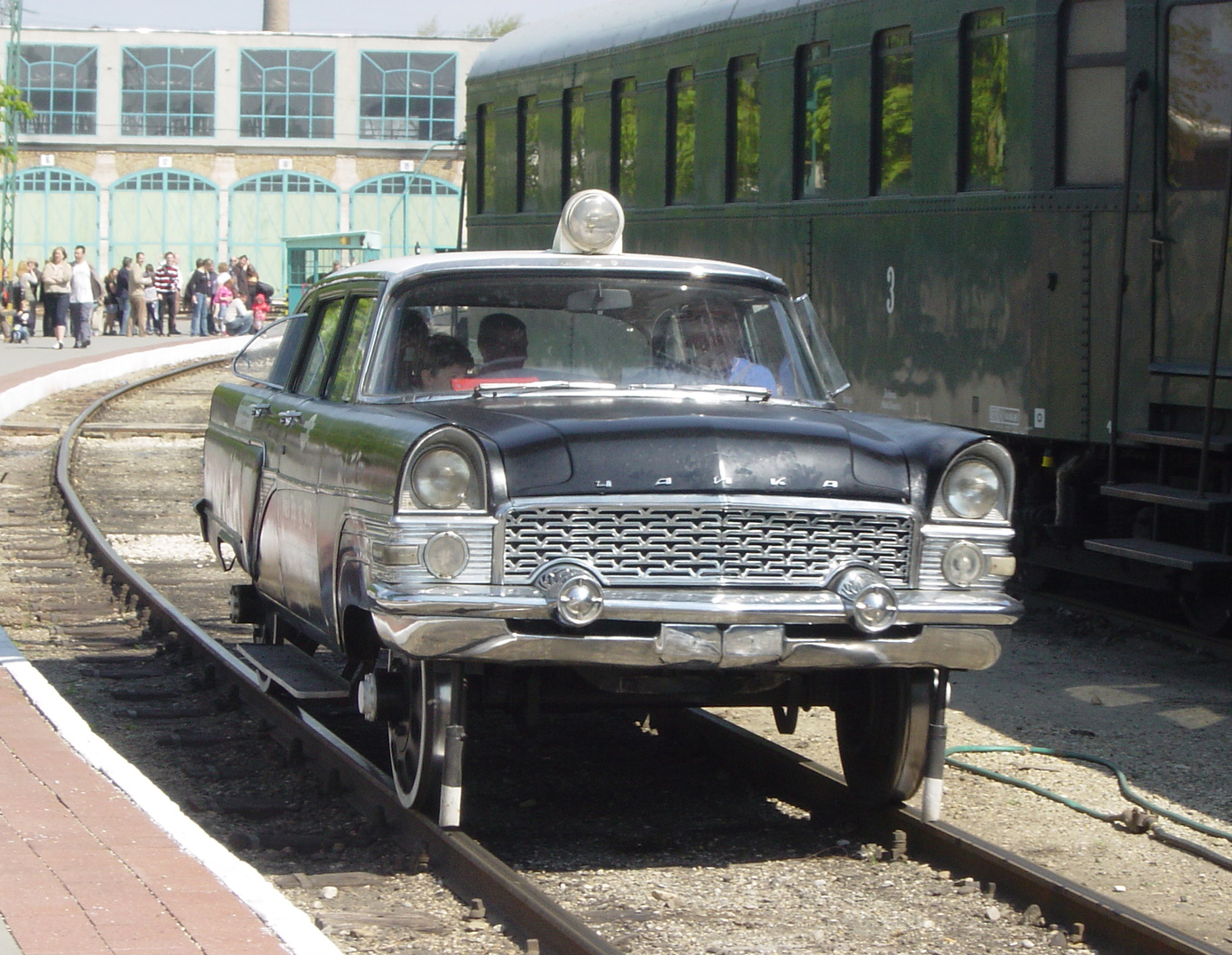 GAZ-13 "Chaika" draisine at the Hungarian Railway Museum (Vasúttörténeti Park), Budapest, Hungary. "Mav Bp. Ig. 902" is painted on the trunk lid.